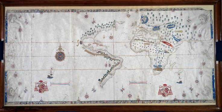 A world map from 1526 which shows the Spanish view of the Earth's surface at the time and includes the eastern coasts of North and South America.